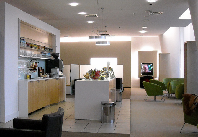 The Bolero lounge at Warsaw's Chopin Airport is the executive lounge facility for passengers departing to non-Schengen destinations.